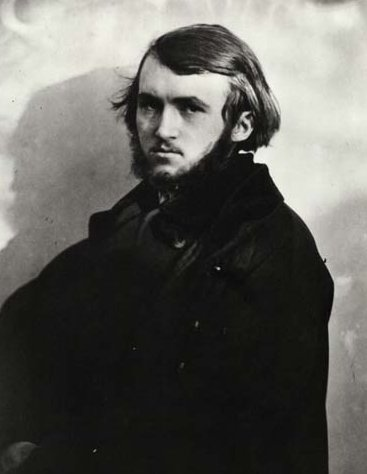 Portrait of Gustave Doré.